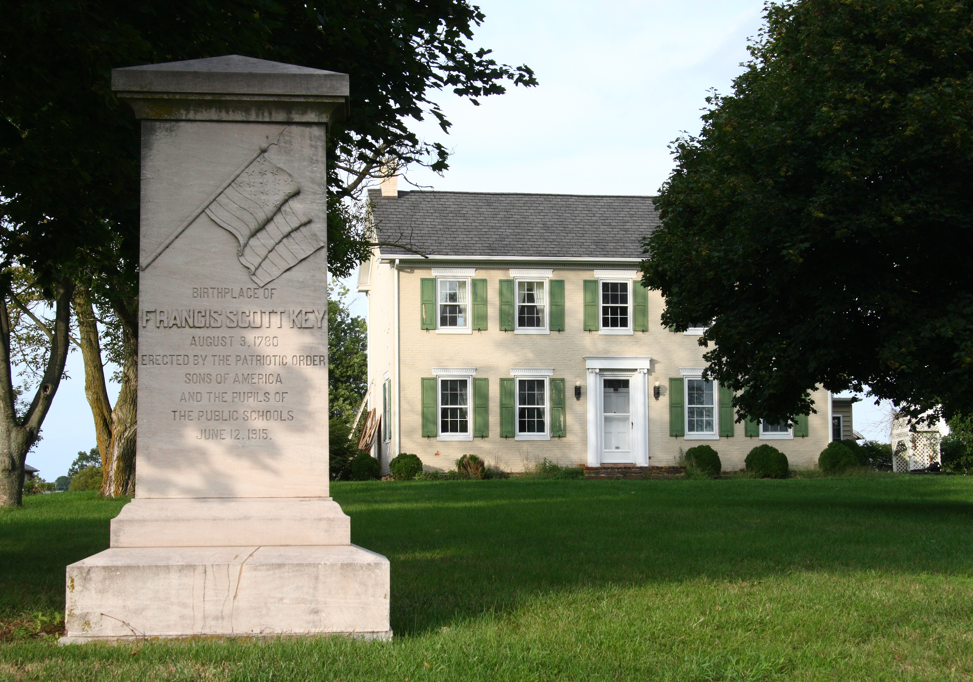 Terra Rubra, Keymar, Maryland, birthplace of Francis Scott Key